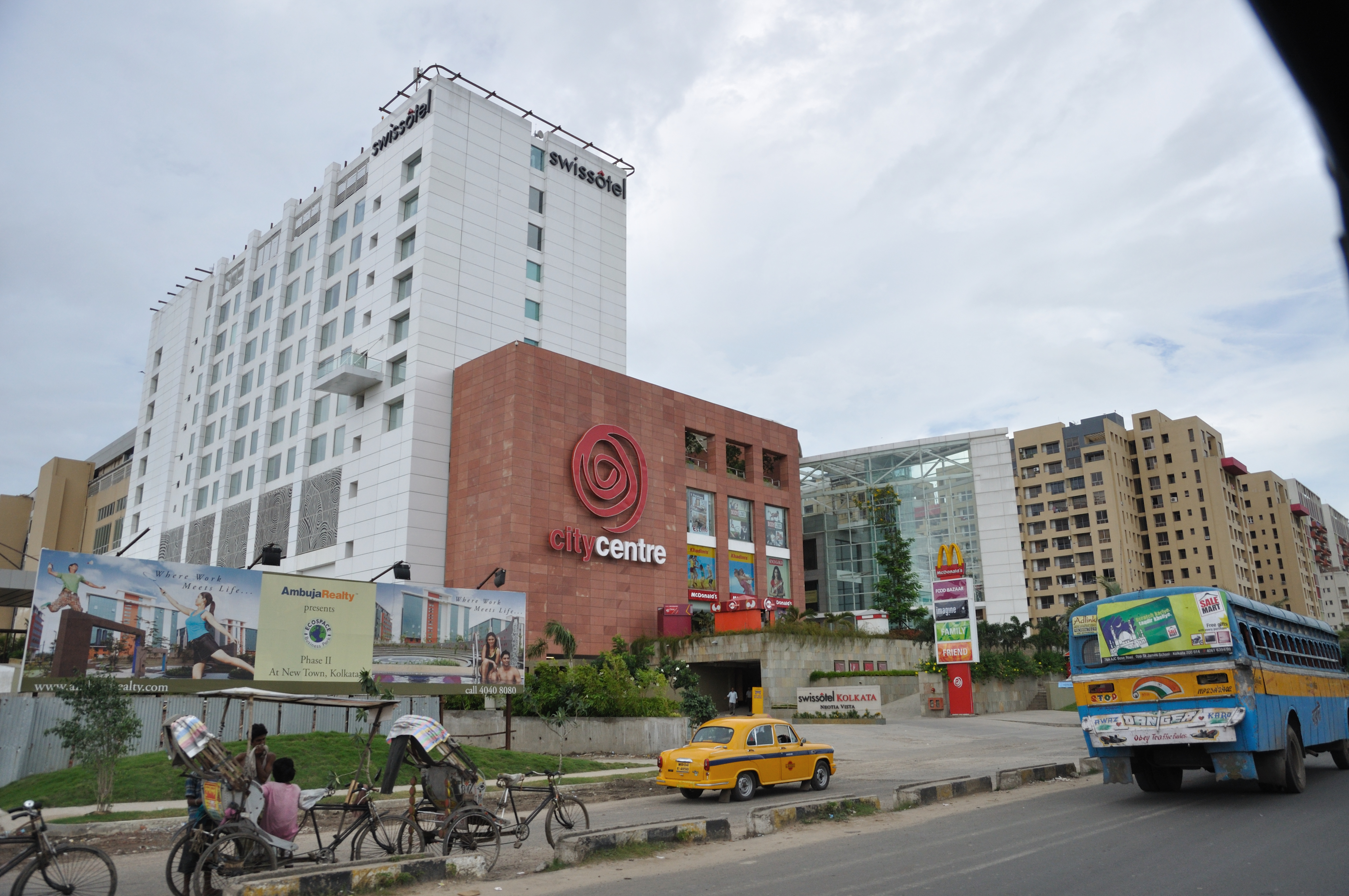 City Centre – a shopping mall and commercial complex developed by Ambuja Realty, the private company chaired by Harshavardhan Neotia at Rajarhat or Jyoti Basu Nagar (renamed on 7th October, 2010) West Bengal near Kolkata.